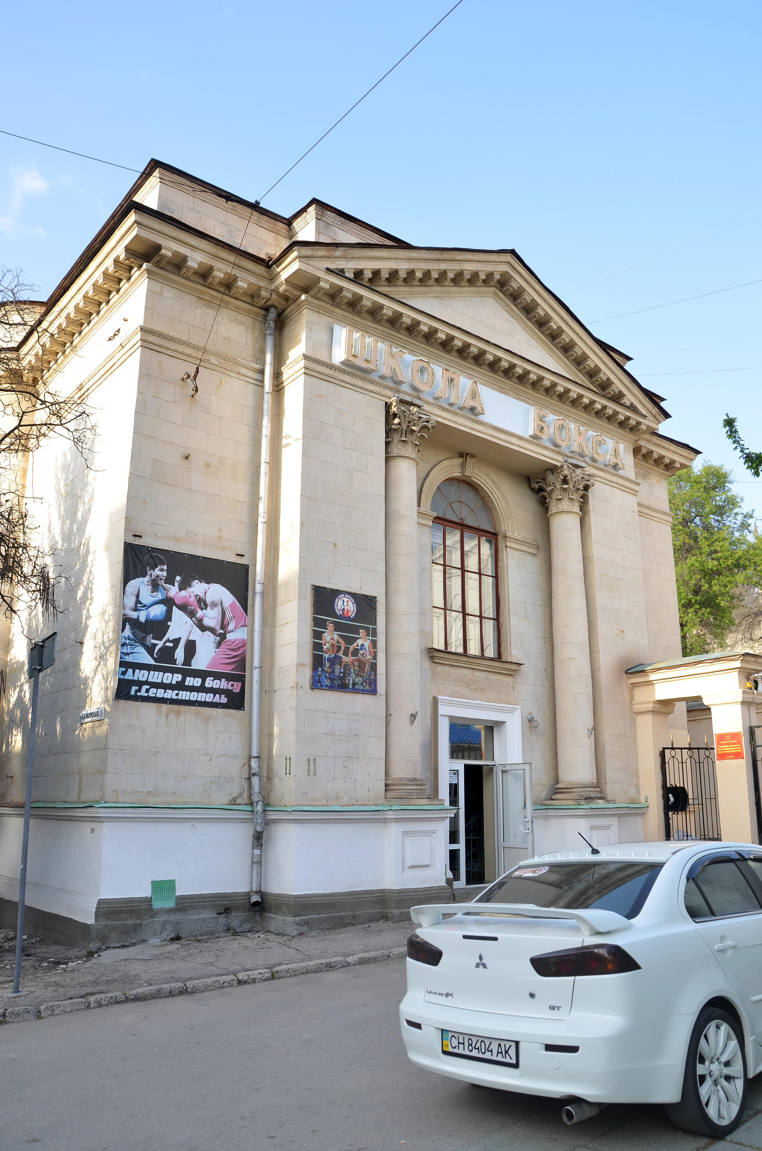 Former Karaite Kenesa in Sevastopol